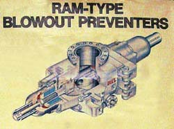 A blowout preventer.